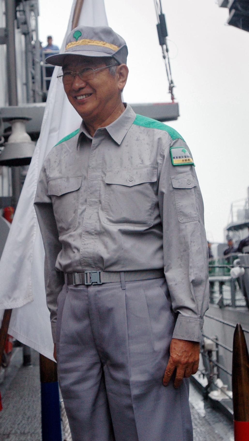 US Navy Cmdr. Joseph Deleon (left), Commanding Officer of the Oliver Hazard Perry Class Guided Missile Frigate USS GARY (FFG 51), speaks with Tokyo Governor Shintaro Ishihara a onboard his ship during the the Tokyo Metropolitan Government Natural Disaster Drill at Commander Fleet Activities Yokosuka, Japan. GARY's Sailors will extract Japanese government personnel during a simulated natural disaster in the city. (U.S. Navy photo by Mass Communication Specialist Seaman Adam York) (Released)